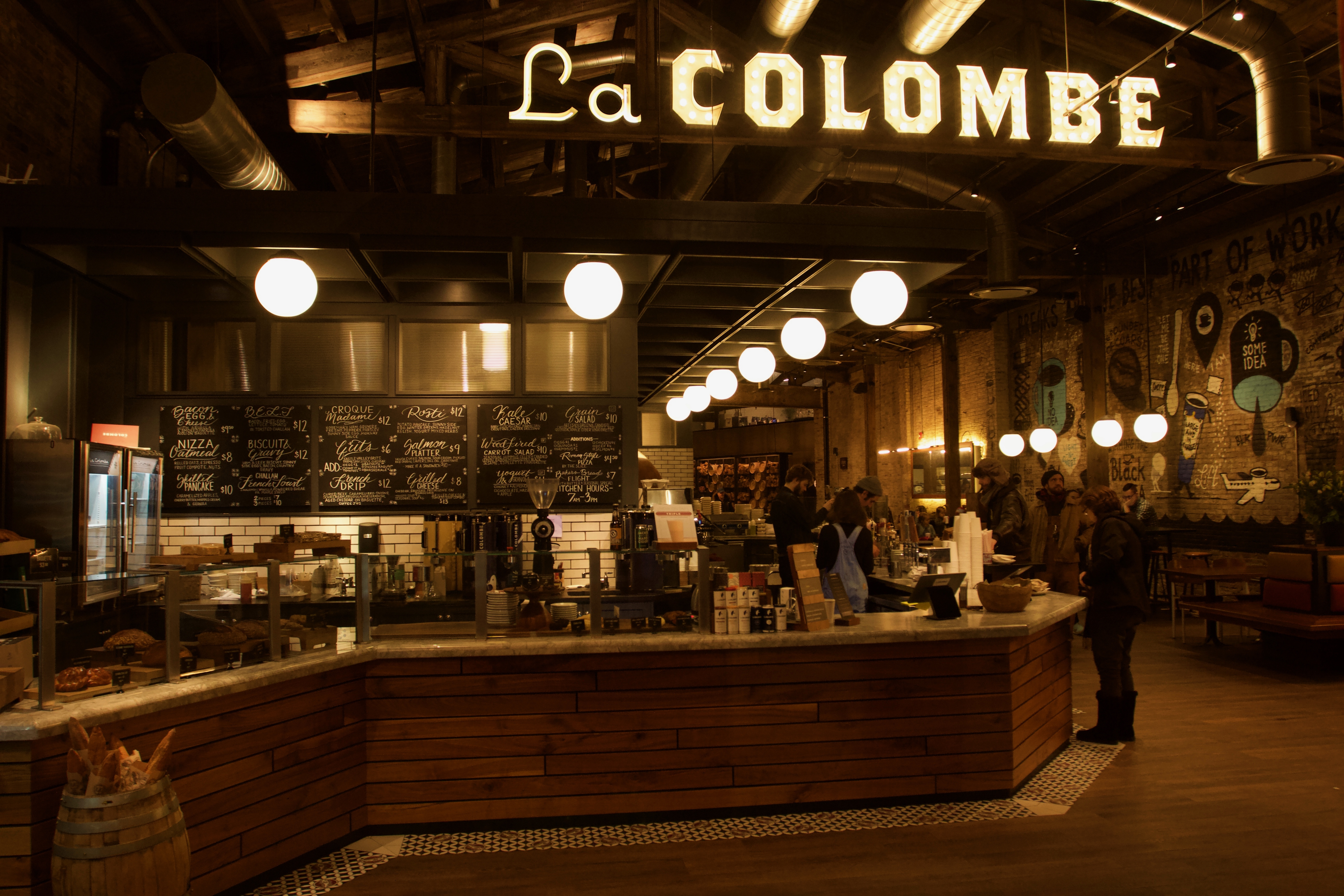 La Colombe flagship store in Philadelphia